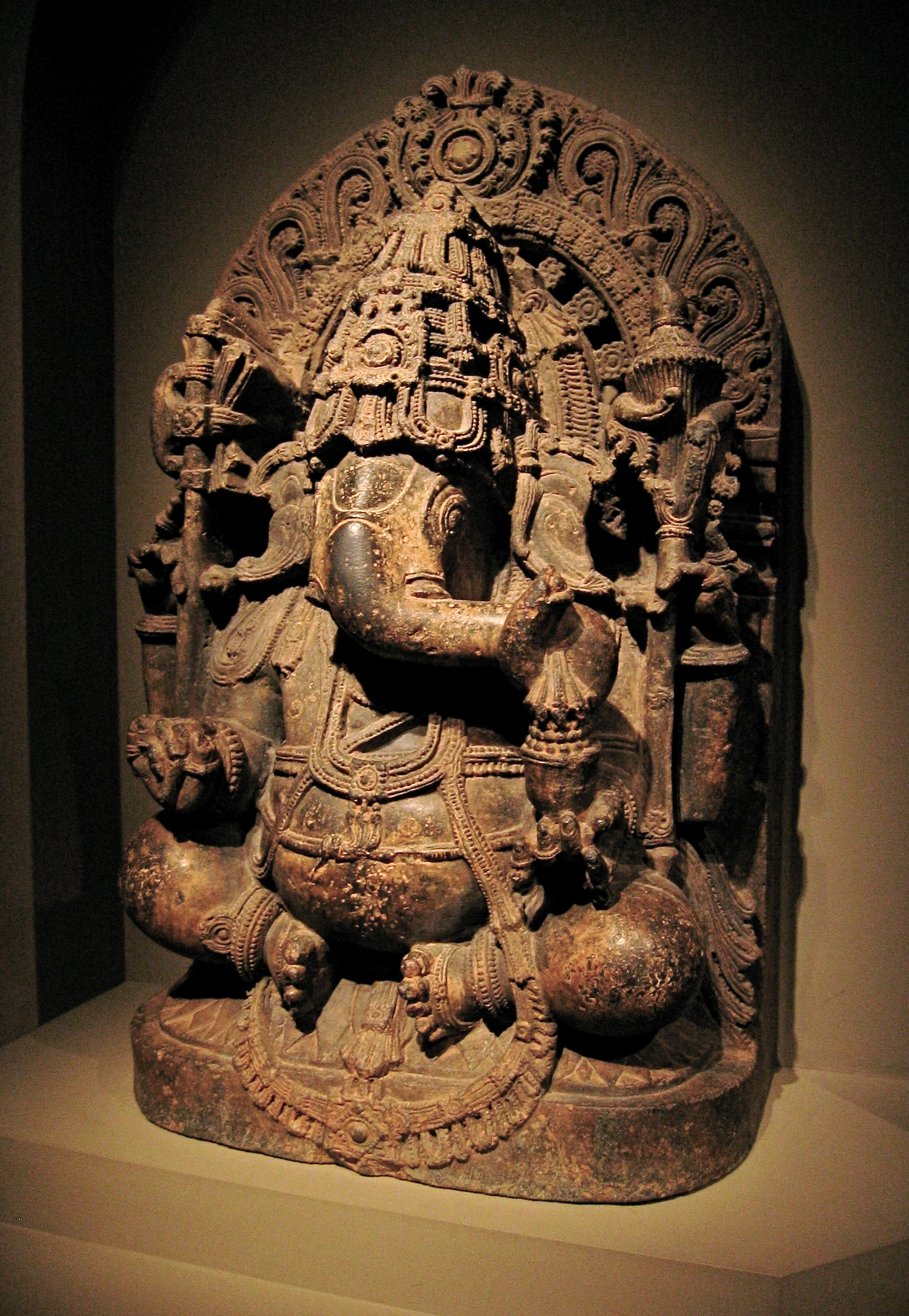 Chloritic schist. H: 88.6 W: 53.7 D: 33.7 cm. Halebid, Karnataka, India. 12th-13th century, Hoysala dynasty. Gift of Arthur M. Sackler, S1987.960 Elephant-headed Ganesha, the god of new beginnings and the remover of obstacles, is perhaps the most popular god in India. Hindus regard him with affection and invoke him at the start of every new project, whether it be cooking a feast or writing an exam paper; he is also placed at the entrance to temples so that worship may commence with him. This sculpture displays the ornate carving and exuberant decoration characteristic of art created under the Hoysala dynasty (1042–1346). The decorated floral arch surrounding the sculpture suggests that it once occupied a cell or niche in a temple. Arthur M. Sackler Gallery. Washington DC.